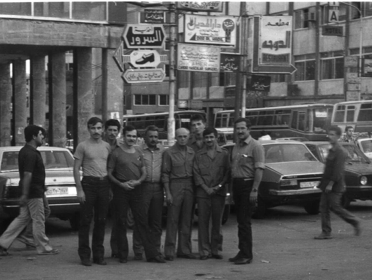 231st AA SAM Regiment officers spend their leave warrant in Homs, Syria, together with their syrian colleagues.